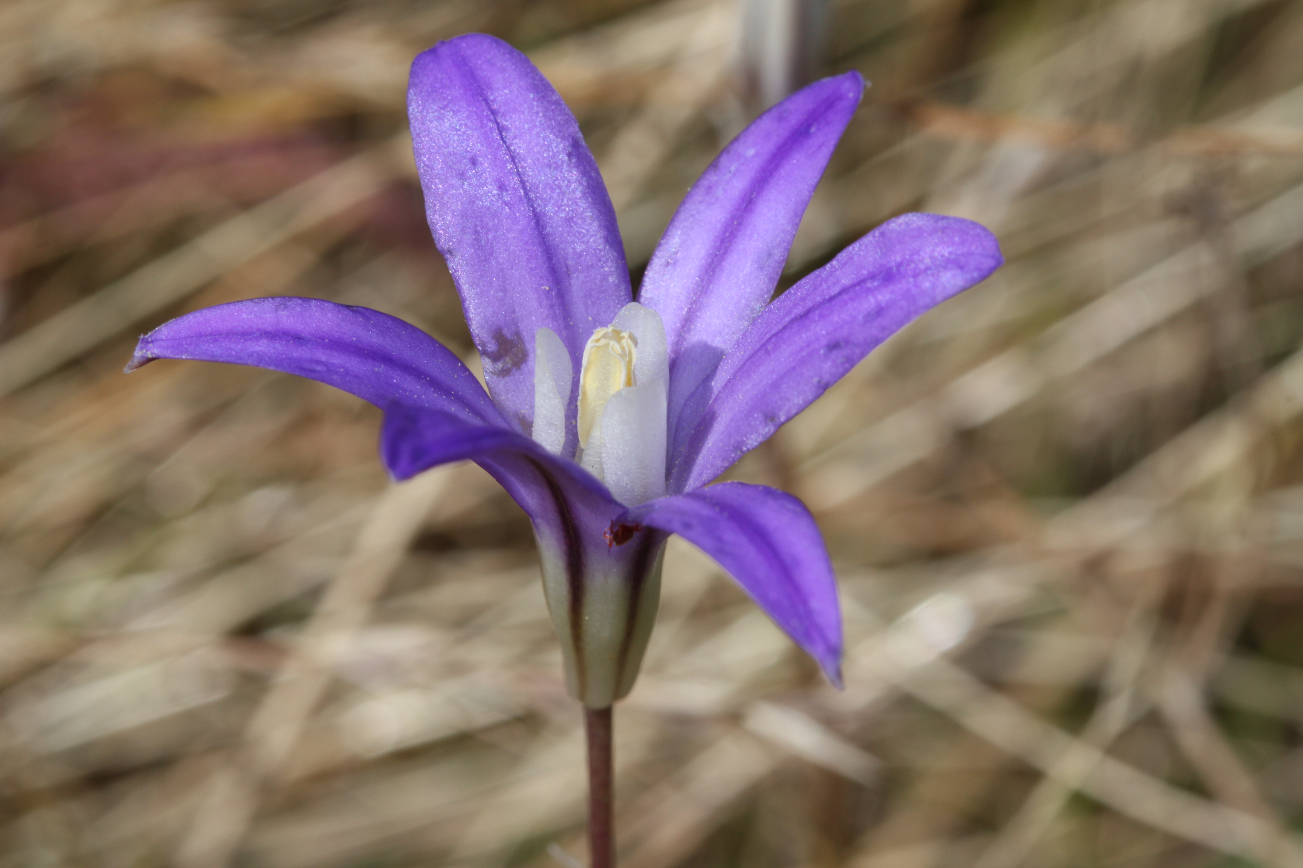 Crown Brodiaea, Harvest Brodiaea, Bluedick Brodiaea